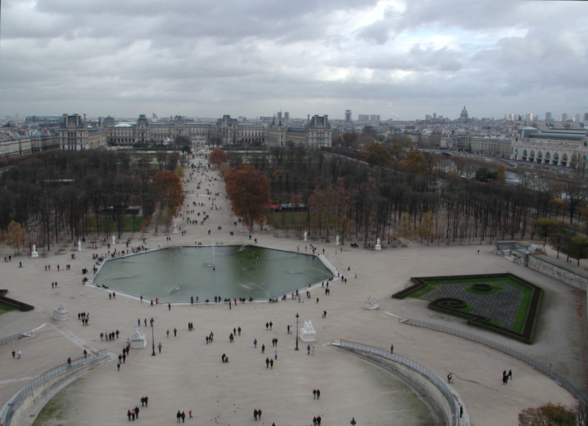 The Louvre to the Place de la Concorde